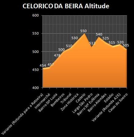 Celorico da Beira - Altitude